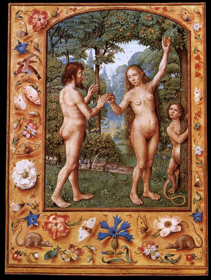 Grimani Breviary